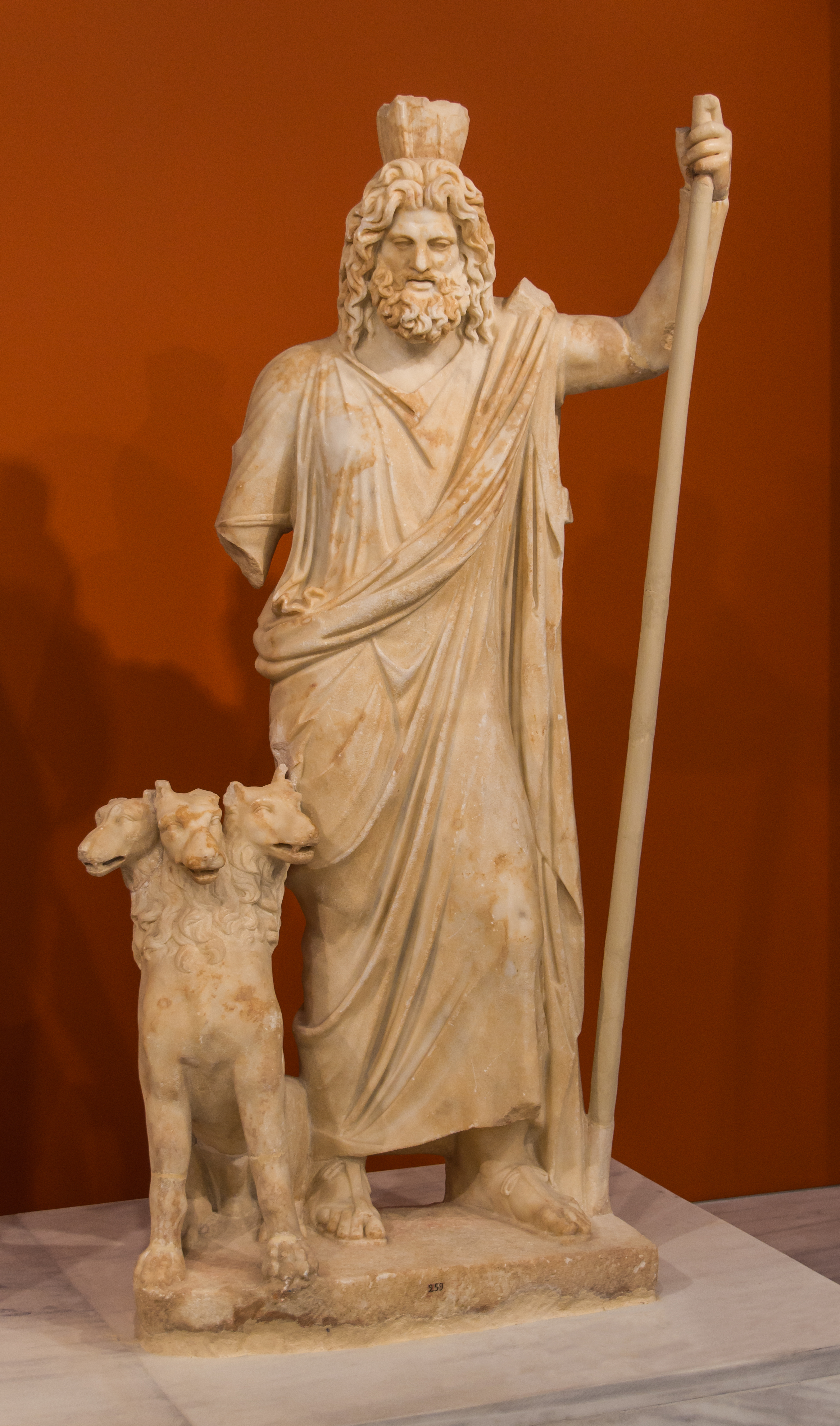 Statue of Pluto/Serapis, with the dog Cerberus. Greco-roman period, marble. From Gortyna. 2nd-century.